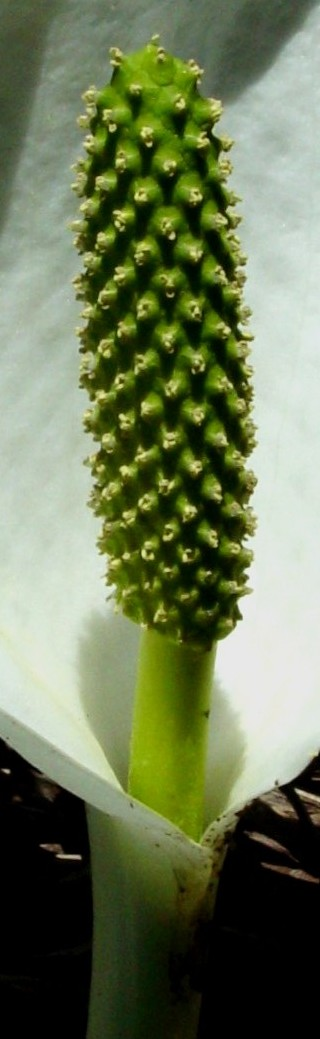 Lysichiton camtschatcense in Mount Choshi